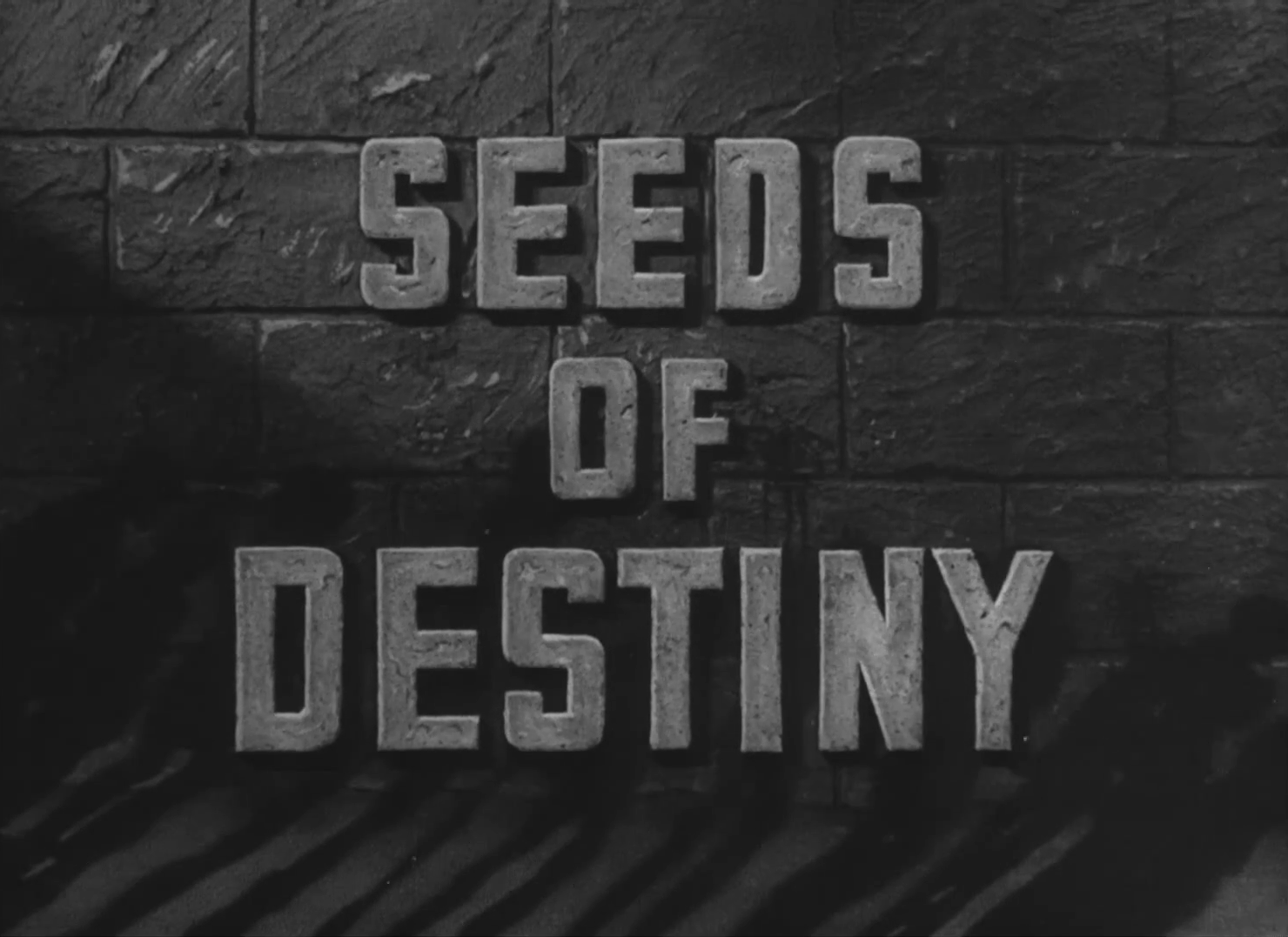 Title card from Seeds of Destiny, a 1946 short propaganda film about the aftermath of the Holocaust produced by the U.S. War Department.